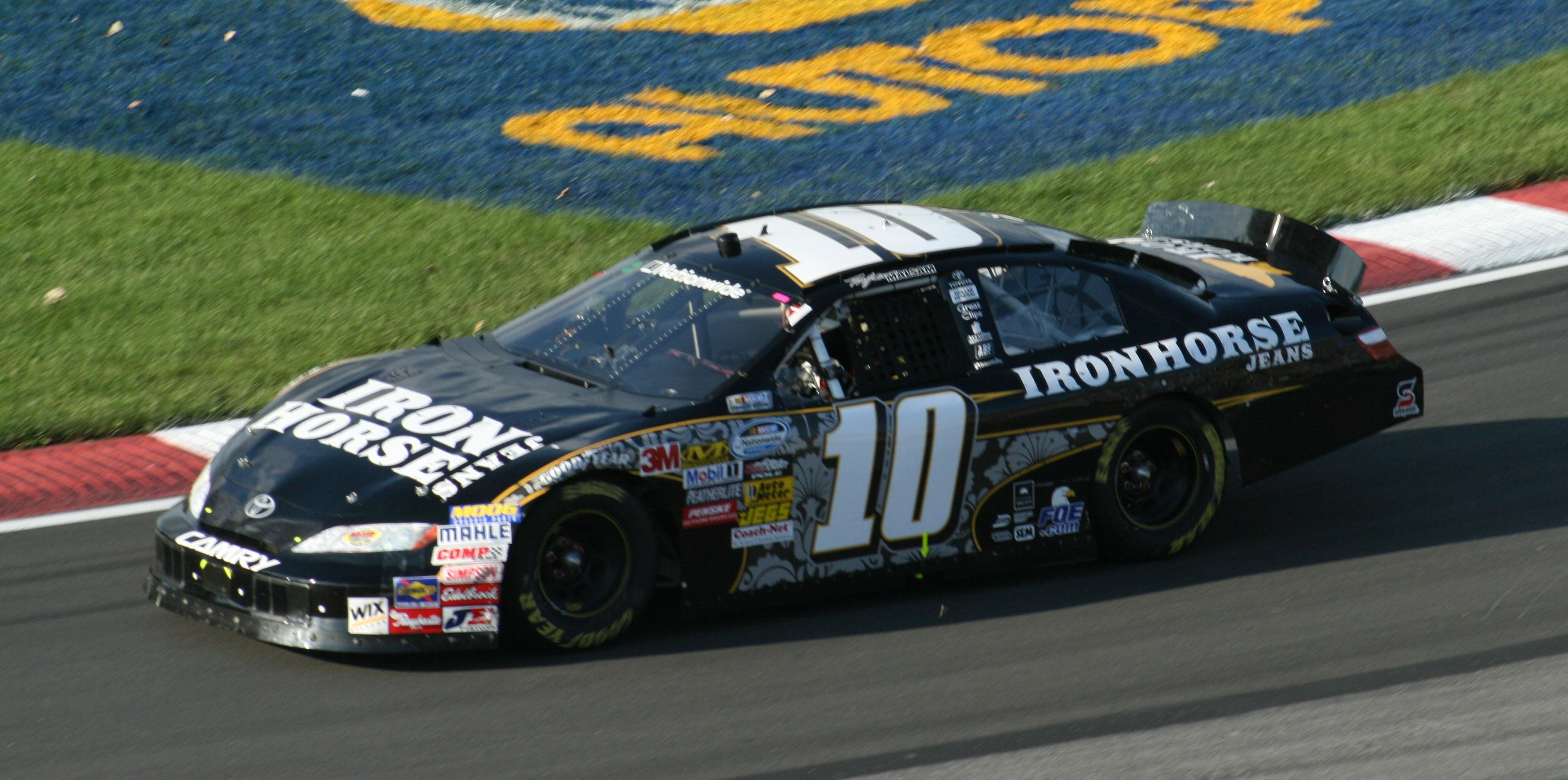 Tayler Malsam in the qualification for the 2010 NAPA Auto Parts 200 at the Circuit Gilles Villeneuve in Montreal.